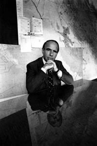 Sadruddin Aga-Khan